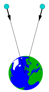 Two bodies falling towards the center of the Earth - image prepared for article Introduction to general relativity